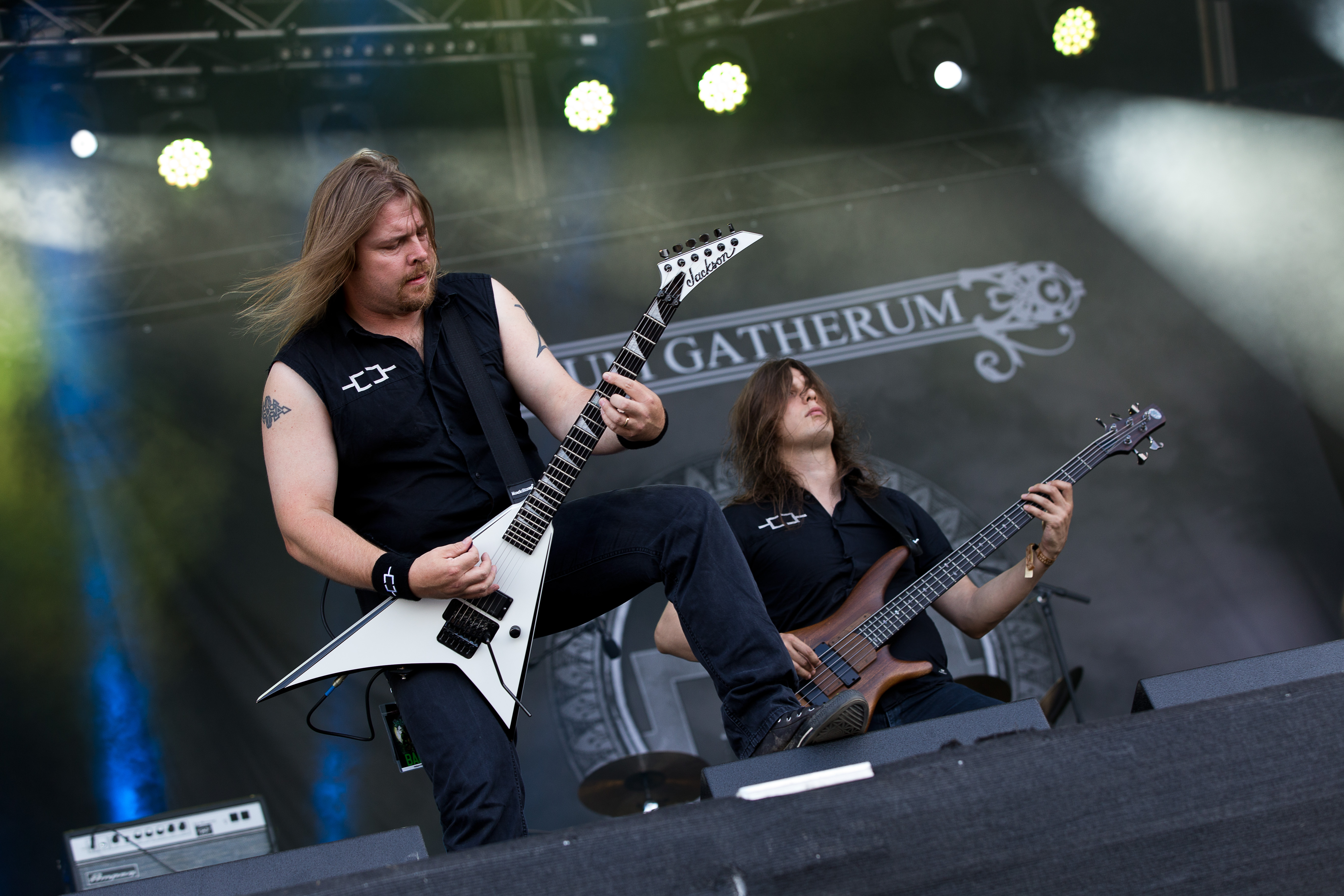 The Finnish melodic death metal band Omnium Gatherum at the Rockharz Open Air 2016 in Ballenstedt/Germany.